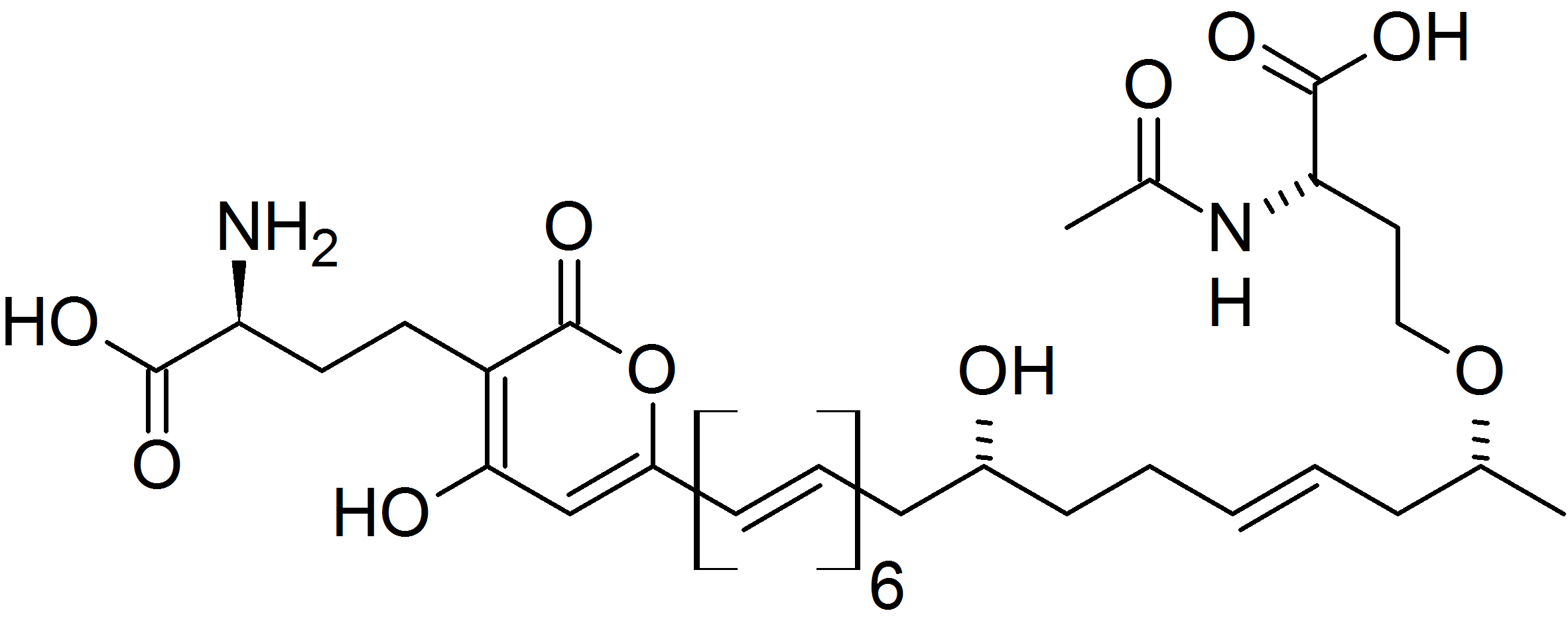 Mycenaaurin A, found in some mushroom. Adapted from